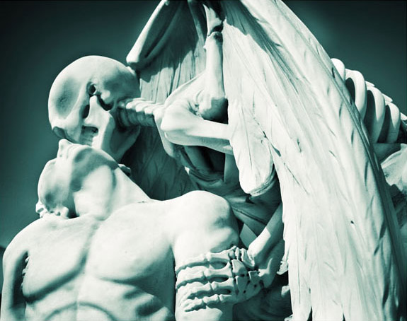 Hay beso más apasionado que este? Is there a more passionate kiss than this one? Be ready... This impressive scene is in the cemetery of Poblenou, the oldest urban cemetery in Barcelona. The sculpture is from Jaume Barba and was sculpted in 1930. Site coordinates: 41°23'46.39"N 2°12'15.09"E